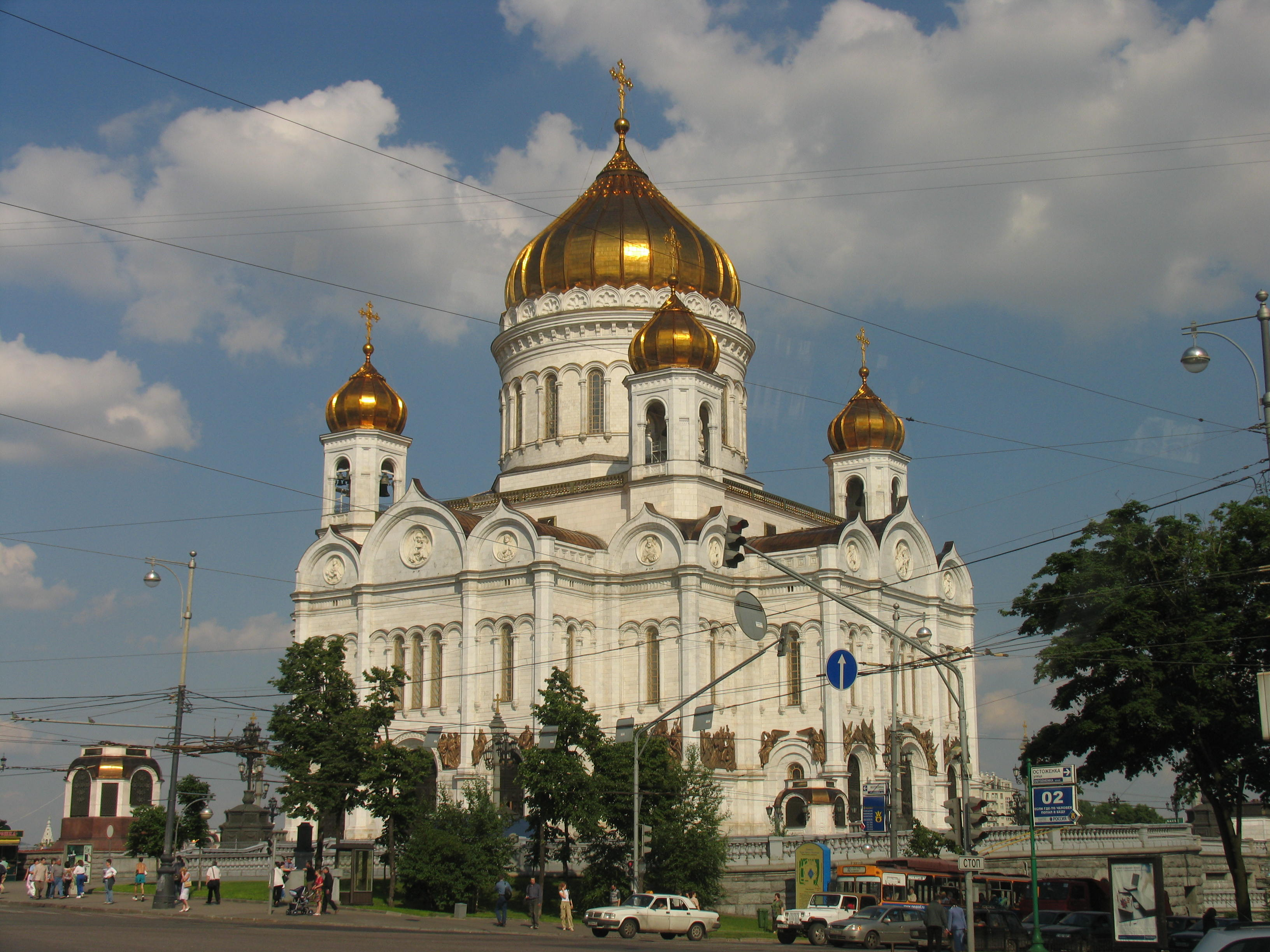 Cathedral of Christ the Saviour in Moscow